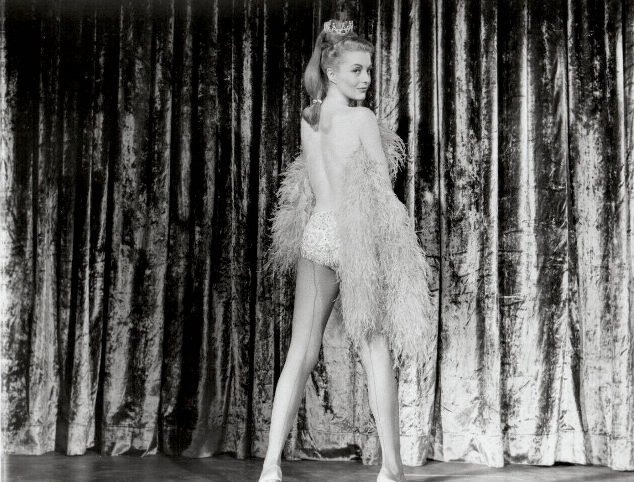 Shock Corridor, 8 x 10 publicity still featuring Constance Towers.